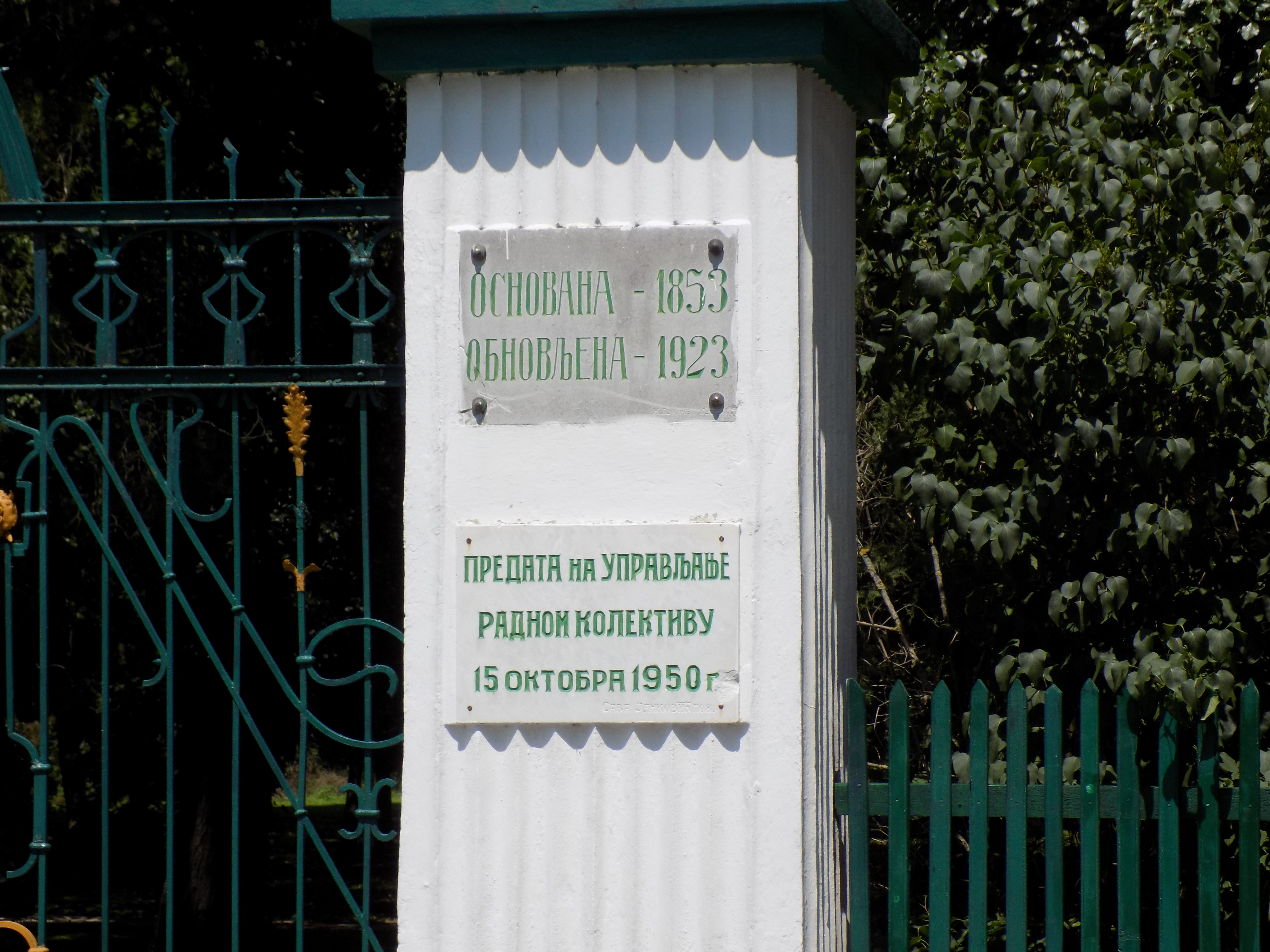 Ljubičevo Stable - side gate